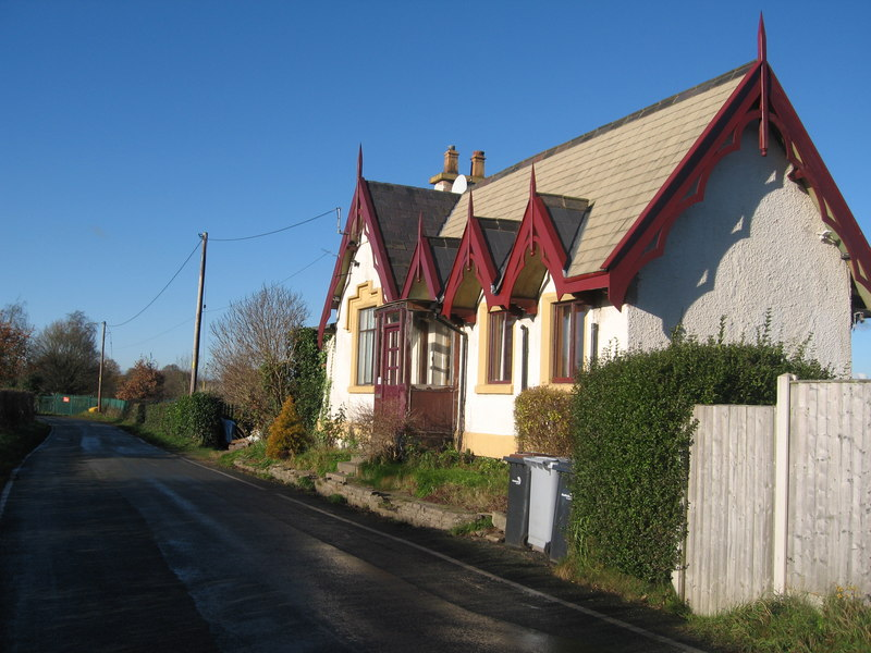 The Old Worleston Station. This is the Old Station House in Station Rd near Aston Juxta Mondrum. This was originally Nantwich Station on the Grand Junction Railway which opened in 1840 between Crewe and Chester. In 1858, with the opening of new station serving Nantwich on a different line, it was renamed Worleston. The station closed in 1952.